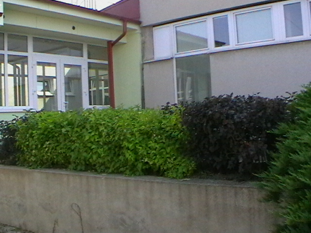 Brno, Žabovřesky citypart,Physocarpus opulifolius